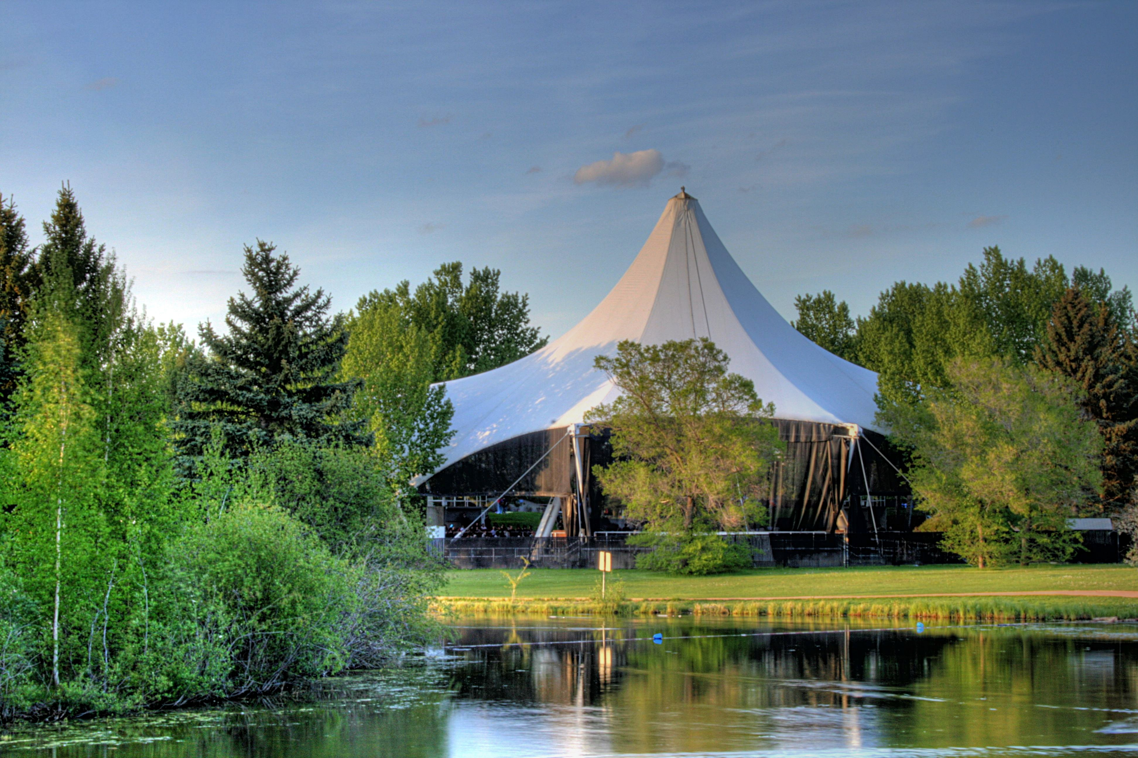 Heritage Amphitheatre in Hawrelak Park, Edmonton, Alberta, Canada.